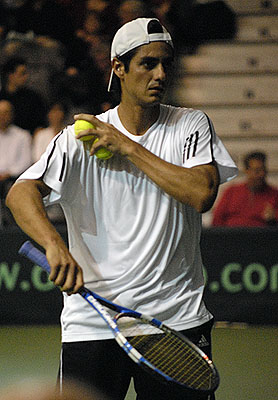 Nicolás Lapentti (Ecuador) during 2009 Davis Cup against Canada.